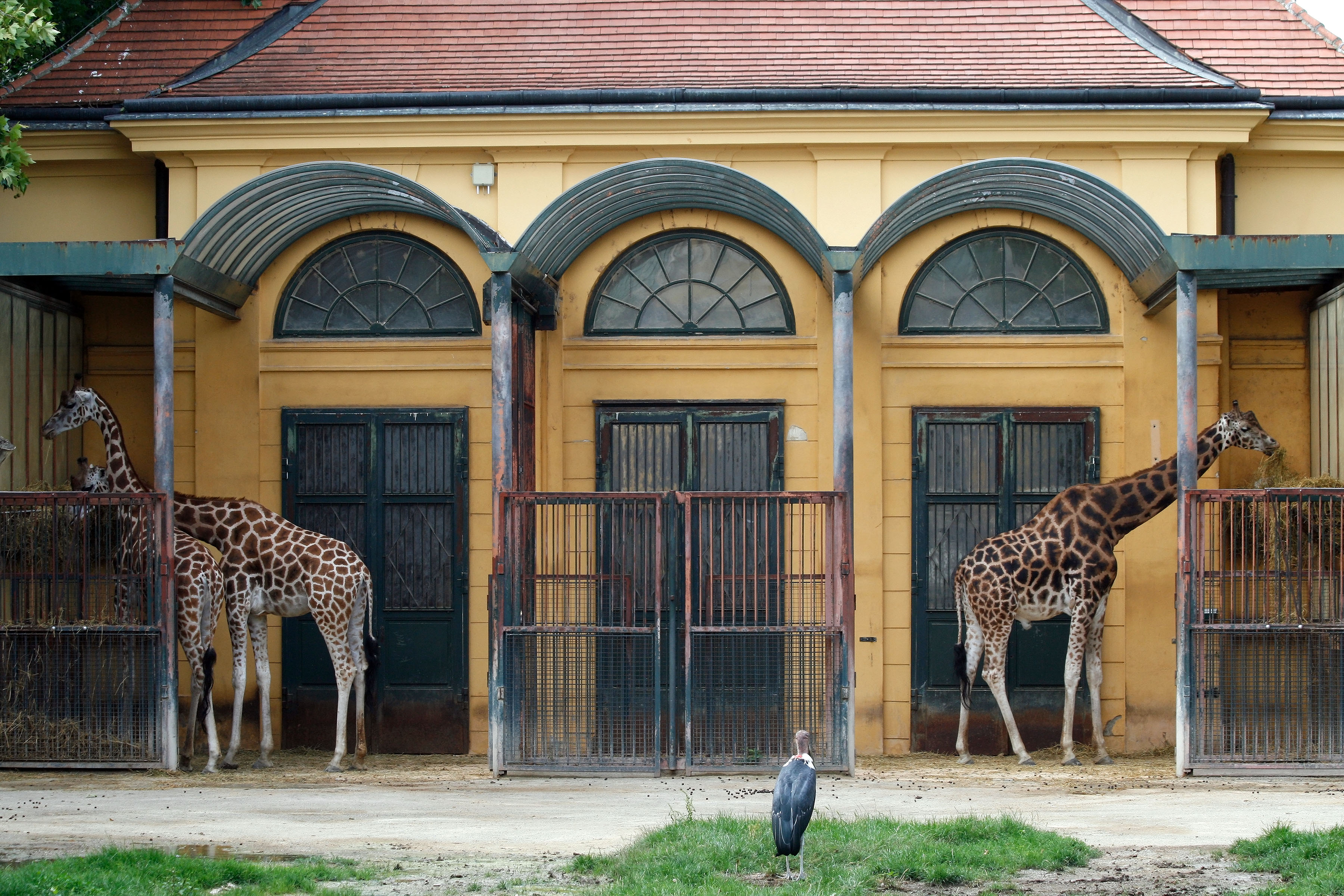 Giraffes and a Marabou Stork at Tiergarten Schönbrunn in Vienna.